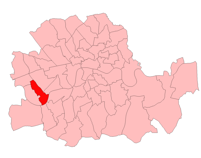 A map of Fulham East constituency within the London County Council area, as it existed from 1918 to 1949.